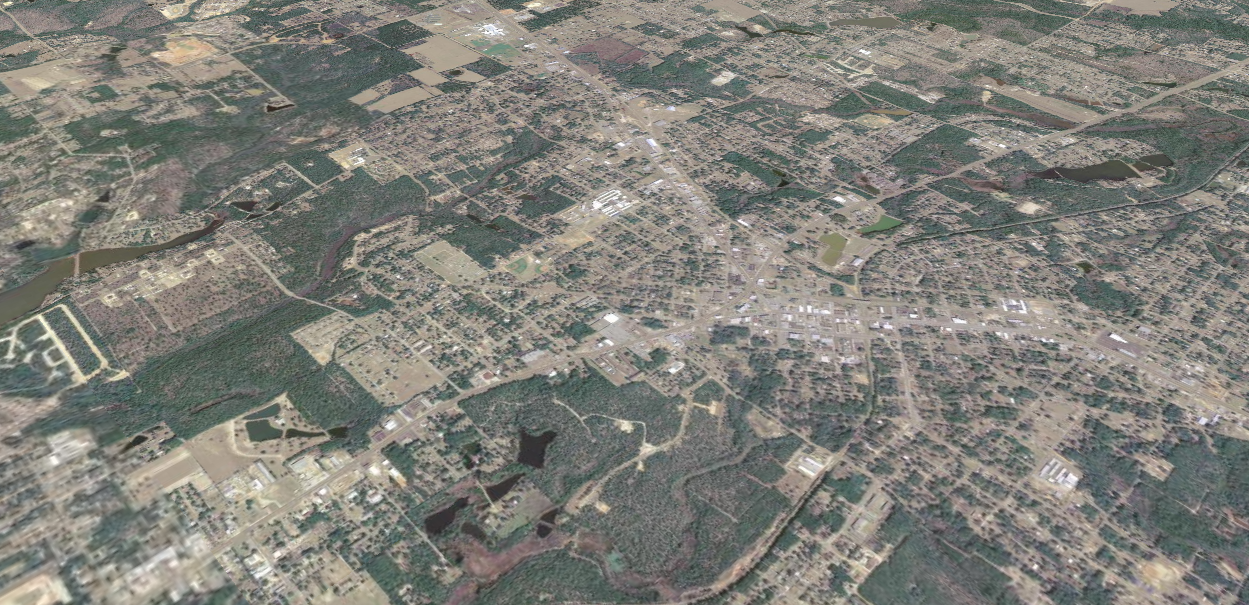 World Wind image of Crestview, Florida.